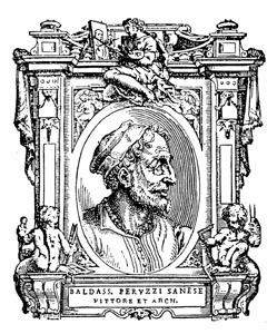 portray of Baldassare Peruzzi, illustratio from "Le Vite" by Giorgio Vasari, edition of 1568